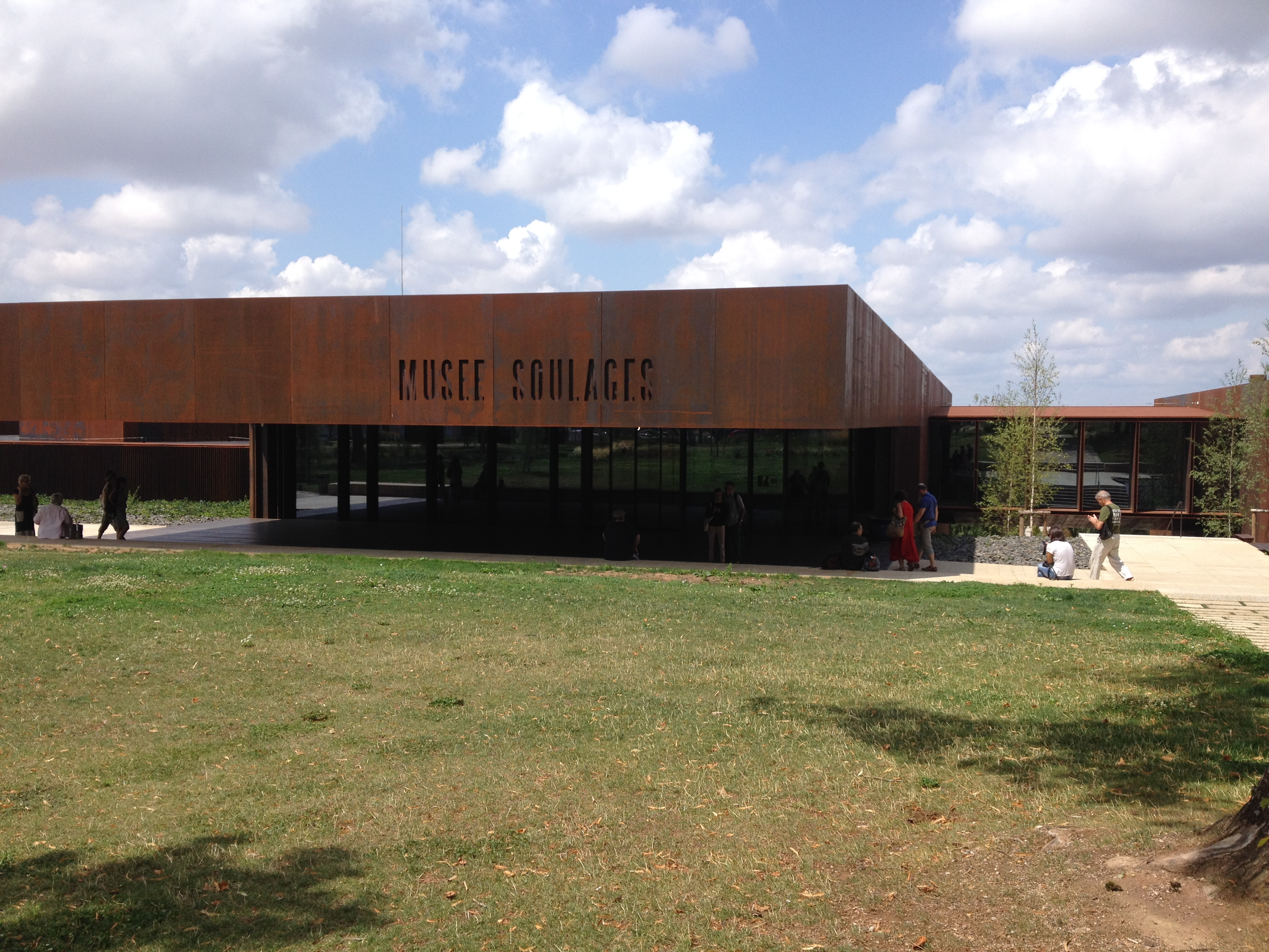 Museum Soulages, Rodez